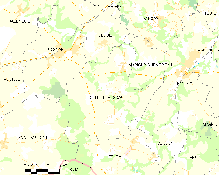 Map of French municipality Celle-Lévescault